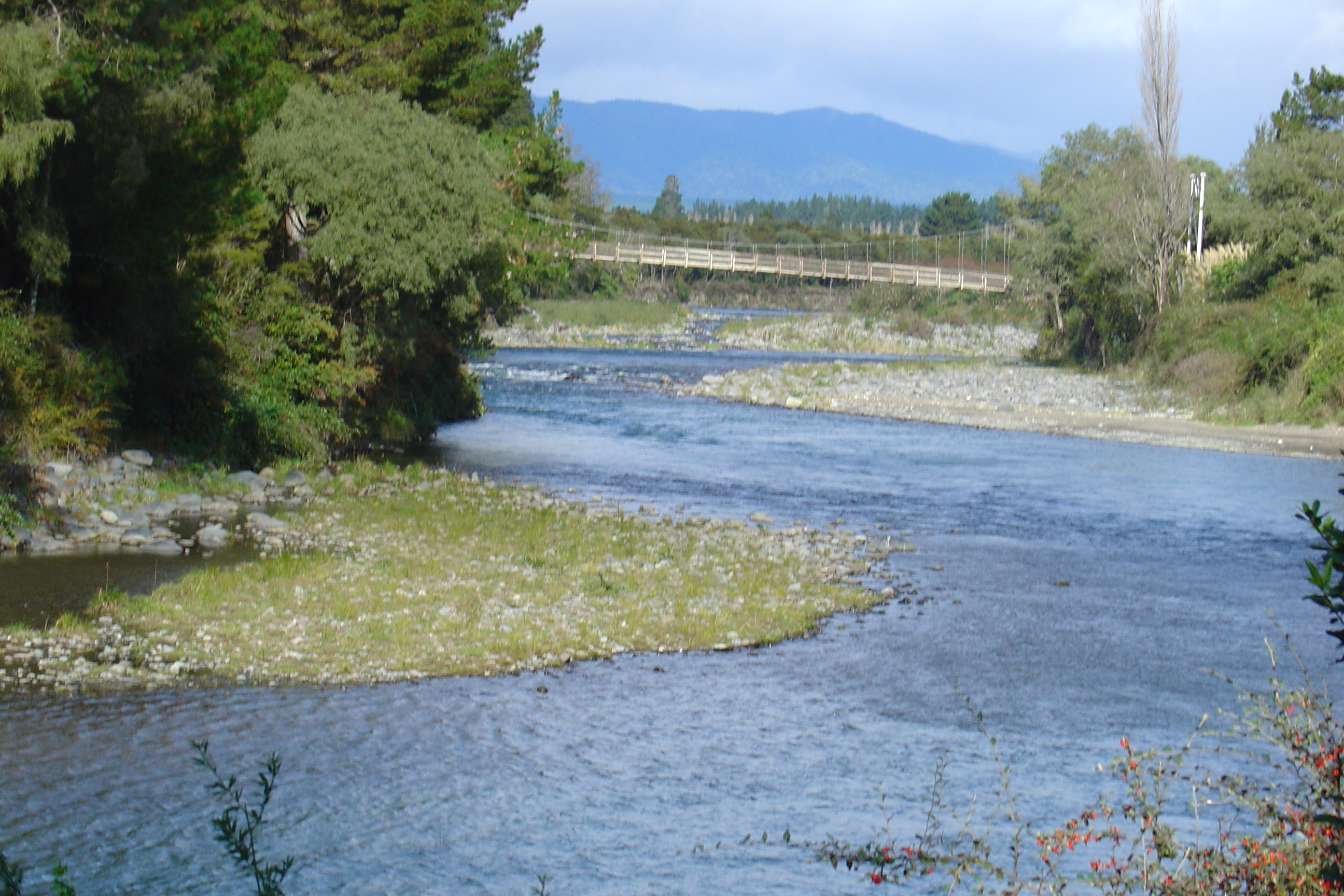 Photo from Turangi, New Zealand Tongariro River photo